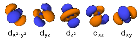 Created by DMacks from Image:Orbitals table.png using Gimp. That file, a single image containing all orbitals, was uploaded as GFDL with a Summary: I made this table using writer, GIMP and a freeware program called "Orbital Viewer" from It shows all orbital configurations - depending on values of n,l,m. May become more useful if someone would rewrite this image into a real wiki table. That will require copying each orbital image into a separate picture for each wiki cell. I dunno if that's a good idea. Janek Kozicki 18:19, 2 April 2007 (UTC)